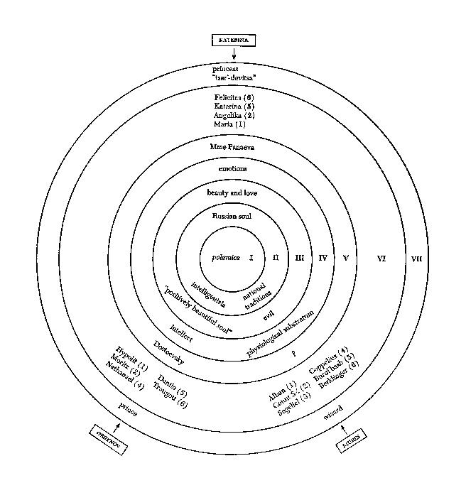 "A graphic representation of the multilevelled structure of The Landlady, to illustrate Dostoevsky s creative method, I: thematic; II: socio-political; III: meta- physical; IV: autobiographical; V: psychological; VI: literary; VII: literal. The numbers in level VI refer to the following stories: 1: Der Magnétiseur, Hoffmann; 2: Der unheimliche Gast, Hoffmann; 3: Improvizator, Odoevsky; 4: Der Sand- mann, Hoffmann; 5: A Terrible Vengeance, Gogol; 6: Der Artushof, Hoffmann"